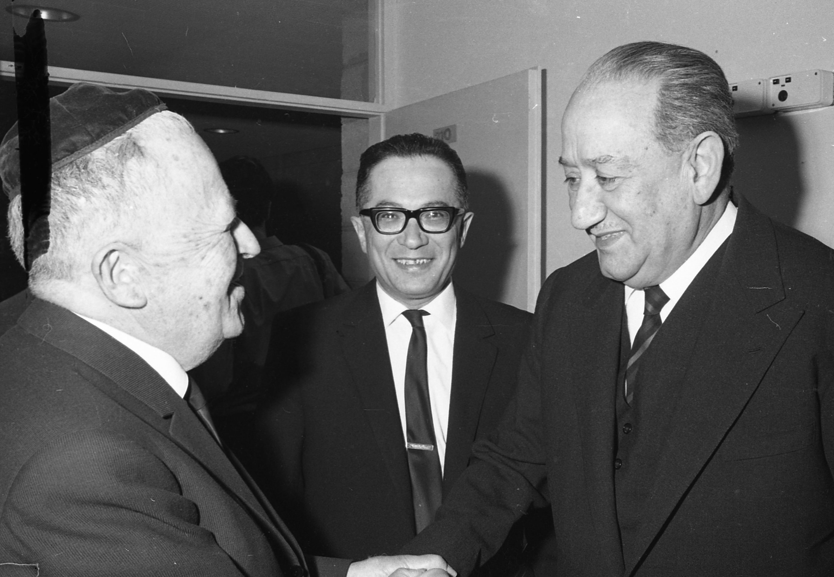 Jerusalem International Book Fair, 1969.